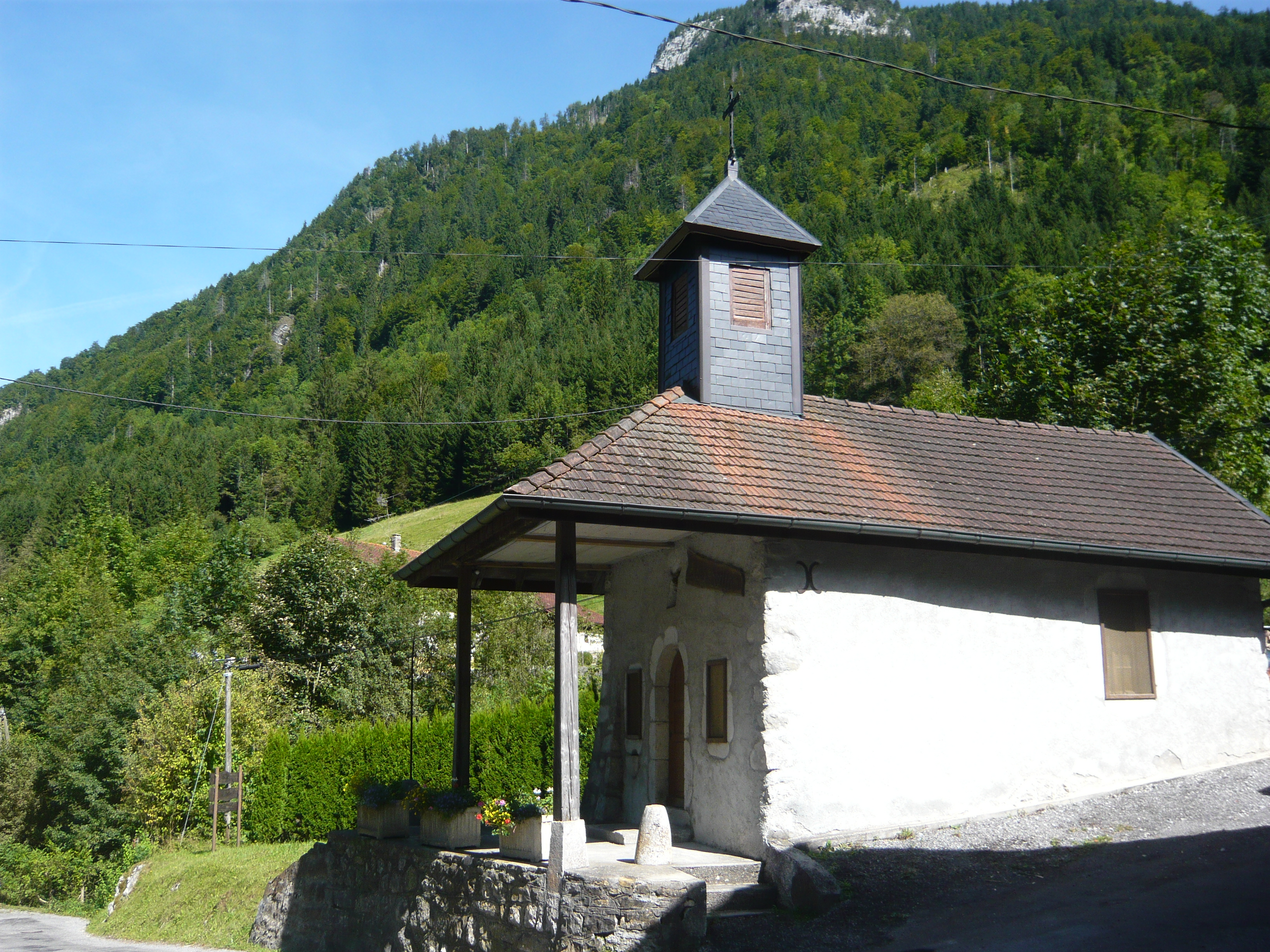 Chapel of the La Ville hamlet of Entremont, Haute-Savoie, France.